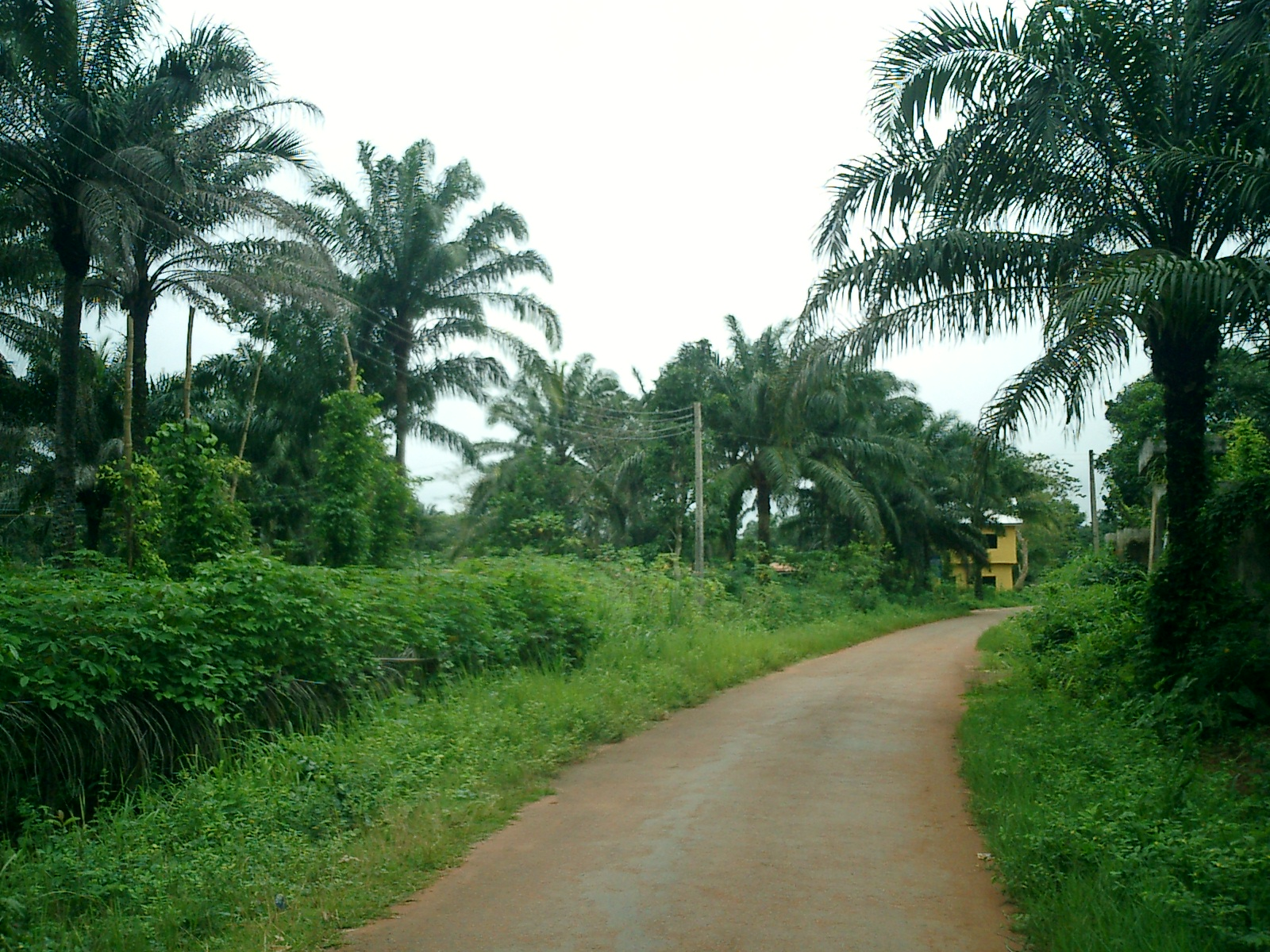 Photograph of one of the smaller roads tarred by individual efforts in Awka-Etiti, where there has been no infrastructural development from the government. This situation is similar in other Igbo towns, south- eastern Nigeria.